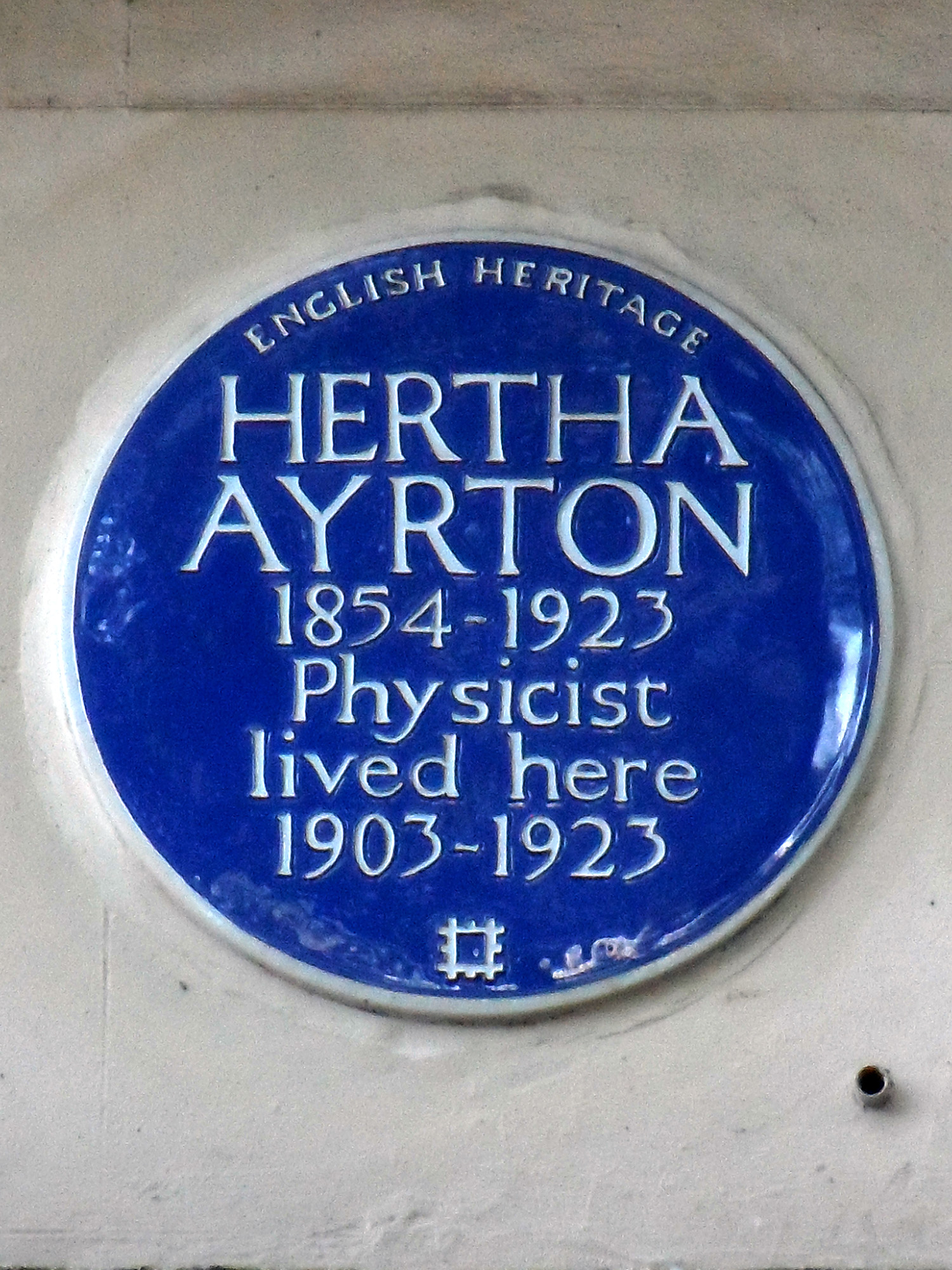 Blue plaque erected in 2007 by English Heritage at 41 Norfolk Square, Paddington, London W2 IRX, City of Westminster